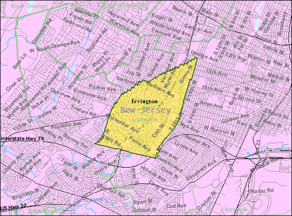 Census Bureau map of Irvington